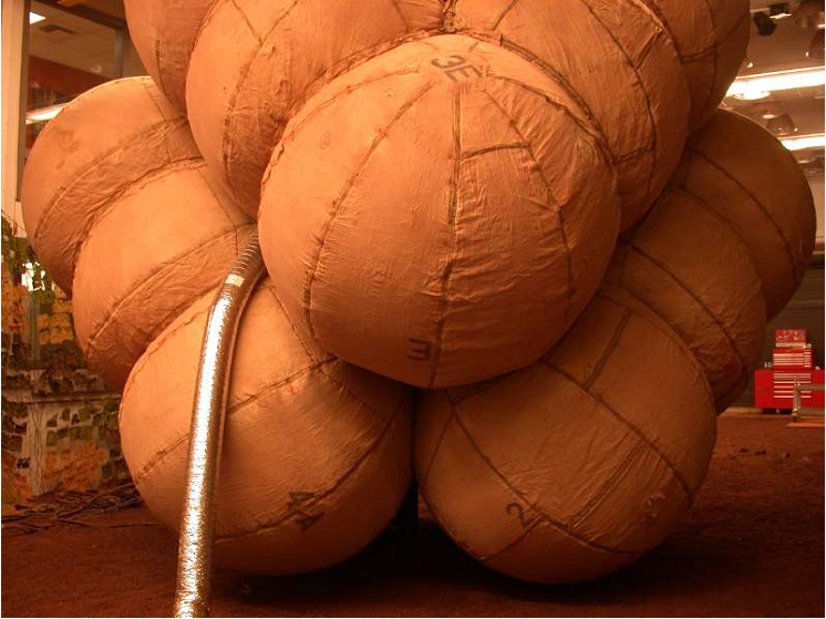 The airbag landing system used by the Mars Exploration Rovers Spirit and Opportunity.